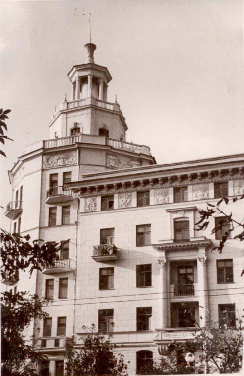 Architect - Eberg Lev